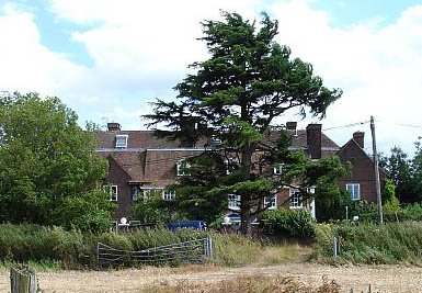 Bunce Court. This 17th century house became home to Anna Essinger's New Herrlingen School in 1933 and in the succeeding years became home to many refugee children from Germany, Austria, Poland and Czechoslovakia.